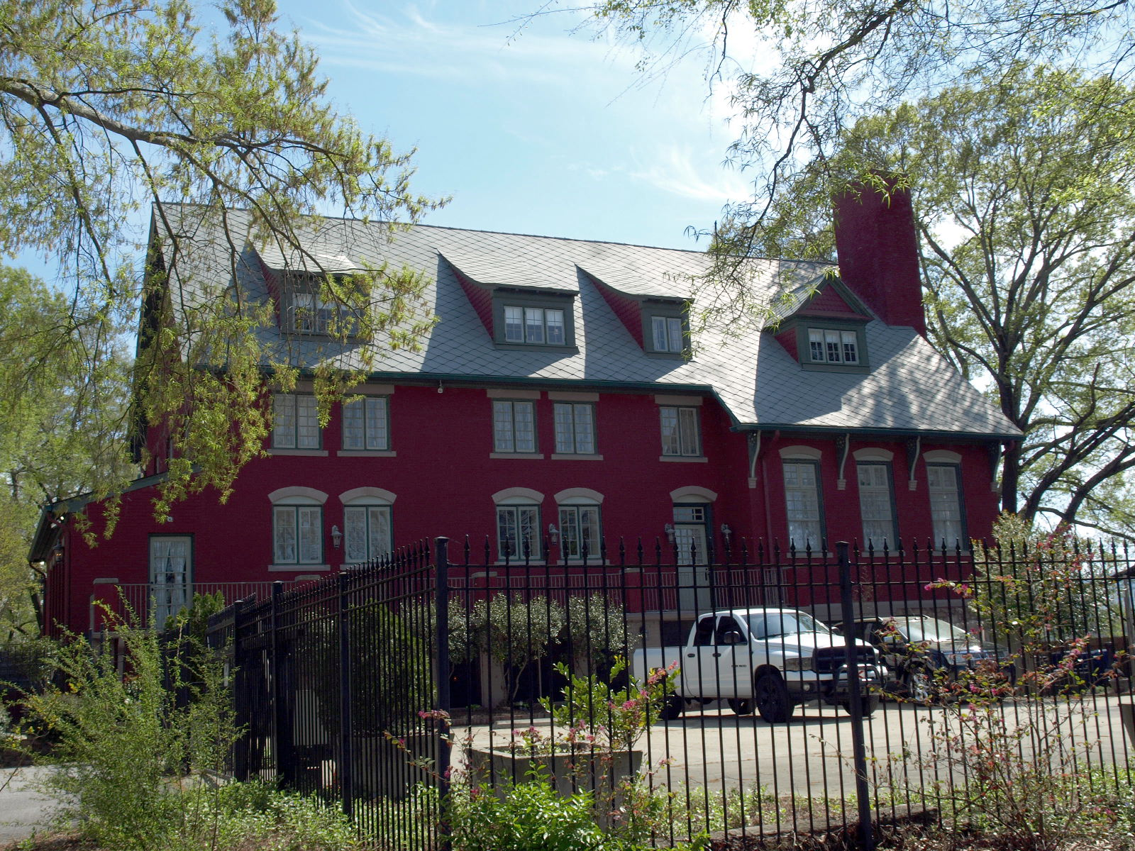 The Anniston Inn Kitchen in Anniston, Alabama, listed on the National Register of Historic Places